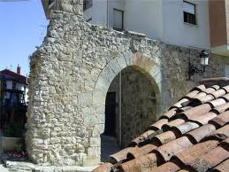 arco medieval san leonardo